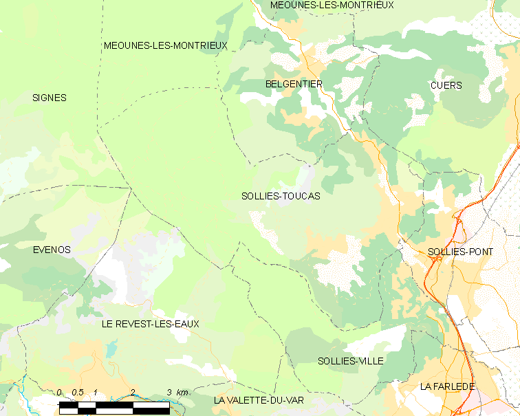 Map of French municipality Solliès-Toucas